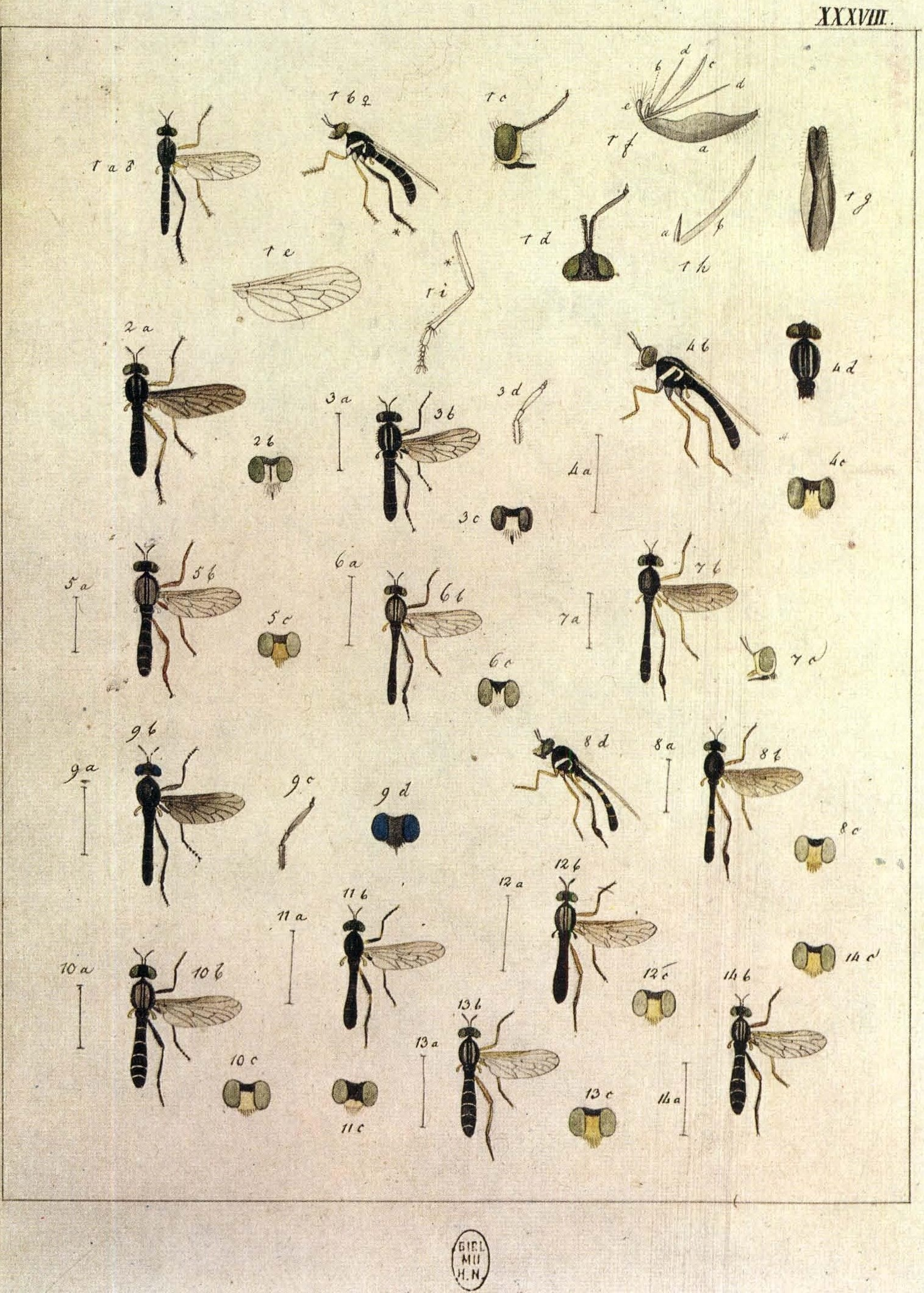 Johann Wilhelm Meigen, 1790 Abbildung der europäischen zweiflügeligen Insekten nach der Natur Von Joh. Wilh. Meigen zu Stolberg bei Aachen 1 Taf XXXVIII see here for text Valid names and synonyms at Catalogue of Life (Annual Checklist) and Nomenclator. Types at MNHN collections database Note Europäischen Zweiflügeligen includes species described by previous authors - Linnaeus, Wiedemann, Fabricius, Scopoli, Forster ,Rossi, Macquart,Robert etc. 1 Dioctria rufipes (De Geer, 1776) 2 Dioctria oelandica (Linnaeus 1758) 3 Dioctria falleni Meigen, 1820 synonym of Dioctria atricapilla Meigen, 1804 (accepted name) 4 Asilus flavipes Meigen, 1820 ? synonym of Neomochtherus Flavipes 5 Dioctria wiedemanni Meigen, 1820 6 Dioctria baumhaueri Meigen, 1820 7 Dioctria infuscata synonym of Dioctria bicincta Meigen, 1820 8 Dioctria (Dioctria) bicincta Meigen, 1820 9 Dioctria atricapilla Meigen, 1804 10 nigripes ? 11 reinhardi ? 12 umbellatarum 13 Dioctria cothurnata Meigen, 1820 14 geniculata ?